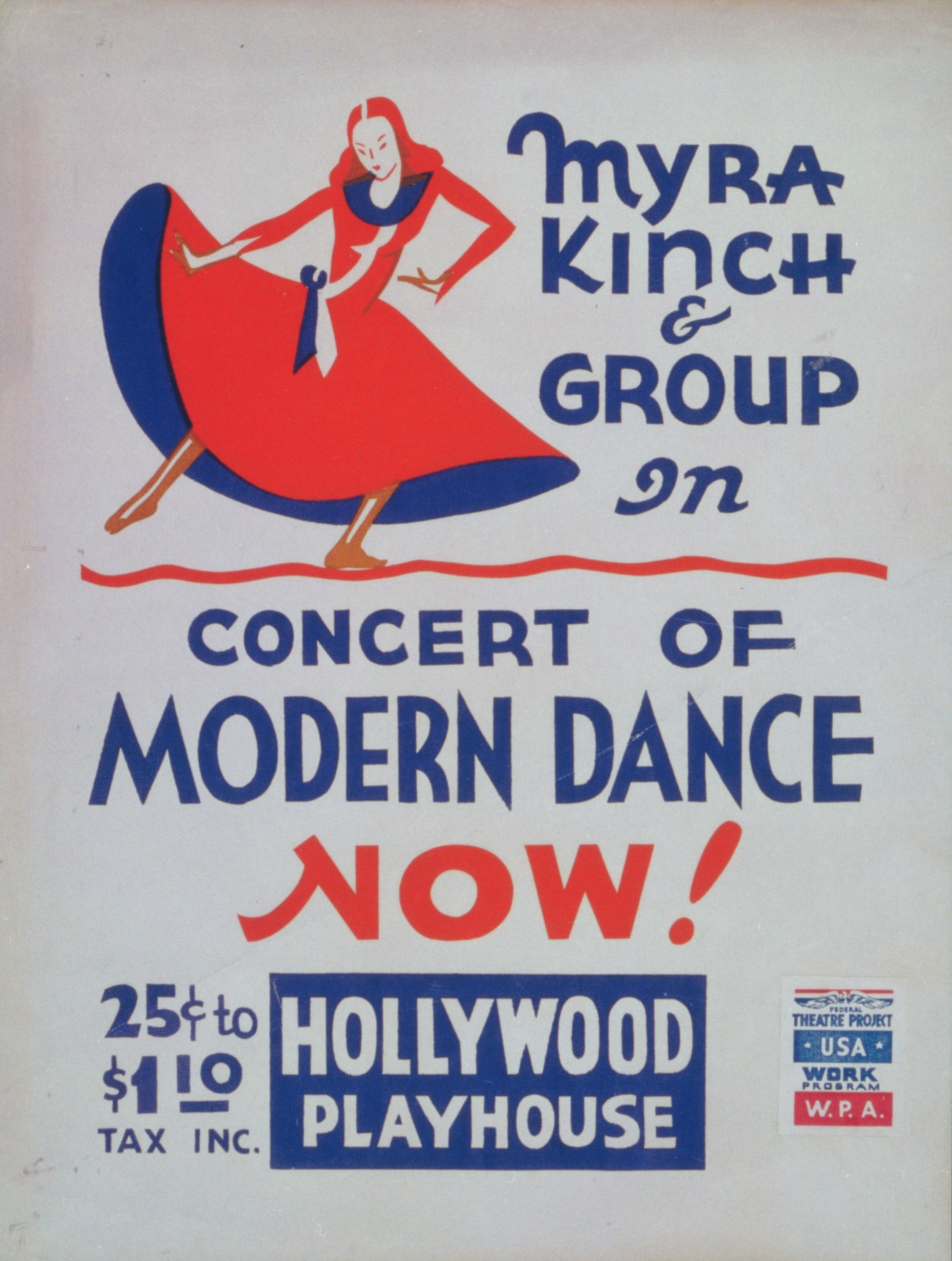 Poster for Federal Theatre Project presentation of "Myra Kinch and Group" in a concert of modern dance at the Hollywood Playhouse, showing a dancer flinging her skirt wide.